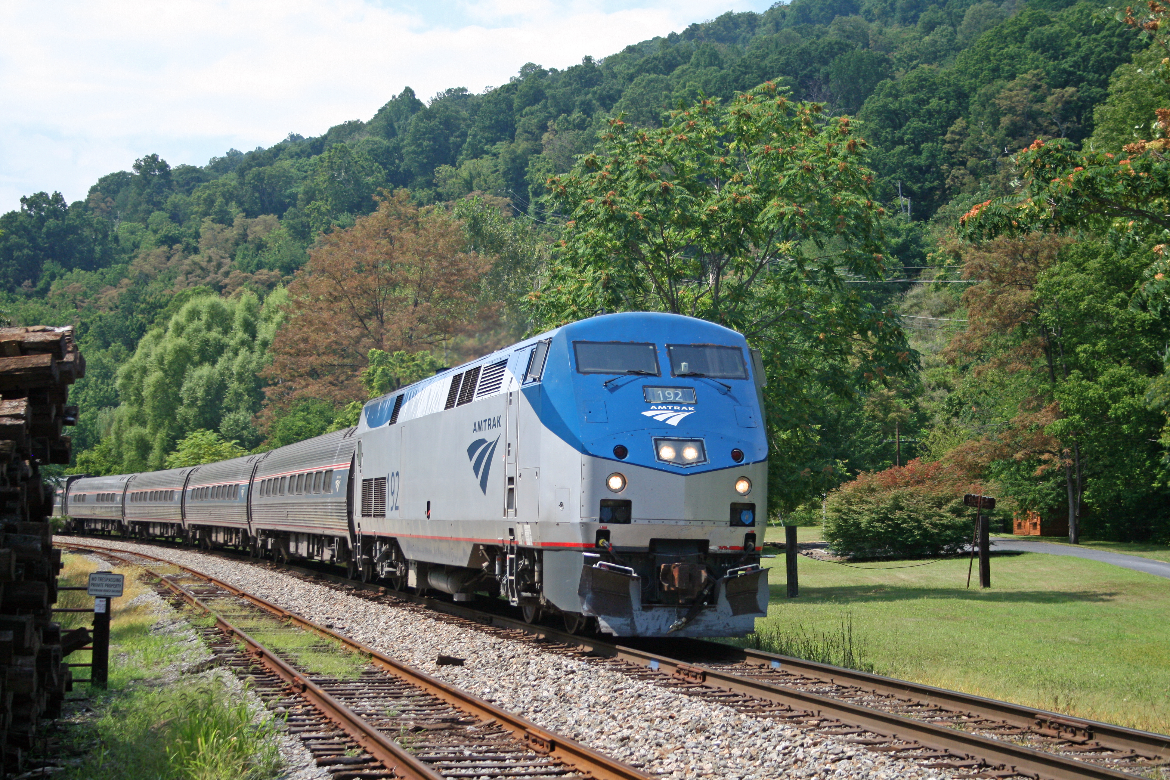 Amtrak 192 ( a P42DC) leads the Cardinal through Afton, VA on its way to Charlottesville. Afton is near the top of the Blue Ridge mountains.